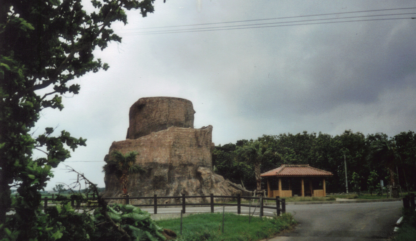 Tower on Kuroshima Island, Okinawa Ken, Japan